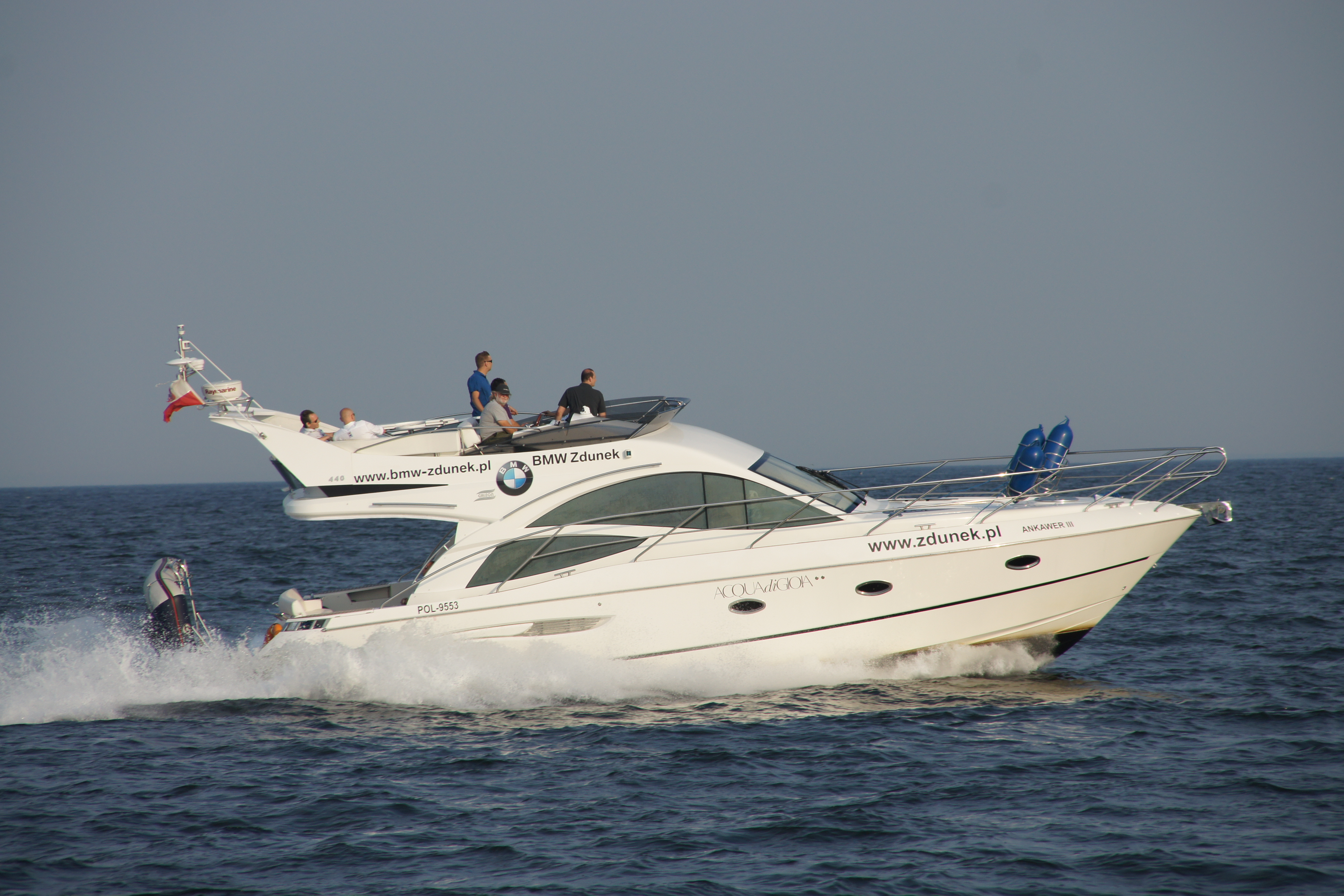 Motor yacht sailing in the bay of Gdansk in Poland